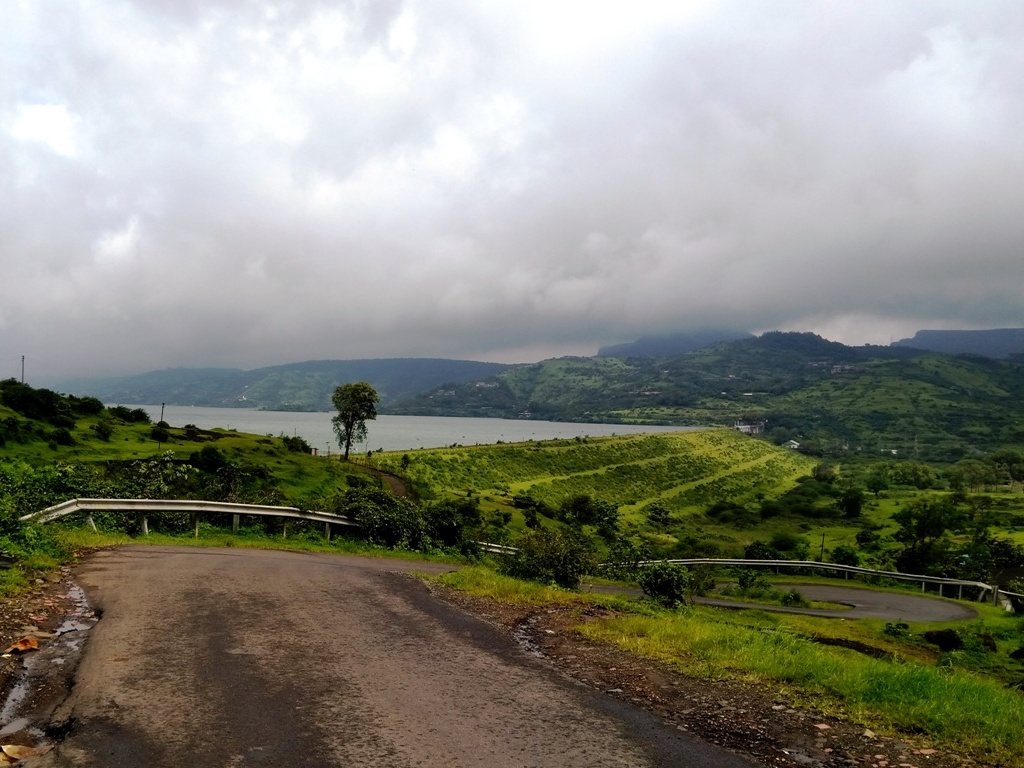 This photograph is taken at Pawna Dam in Pune district. Date 4/9/2018